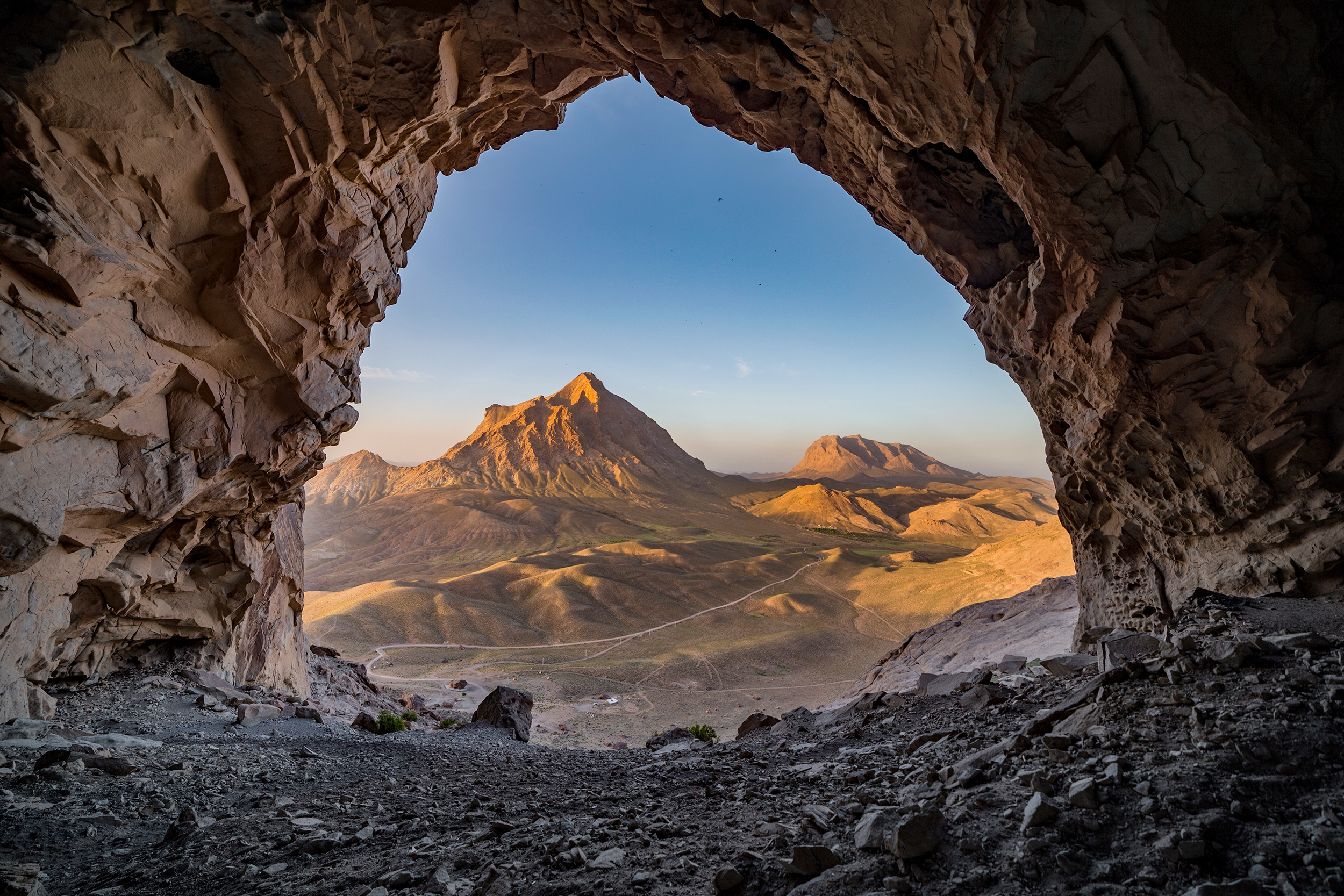 The lookout from Ayyoob Cave located on top of Ayyoob Mountain, Shahr-e Babak, Kerman, Iran.